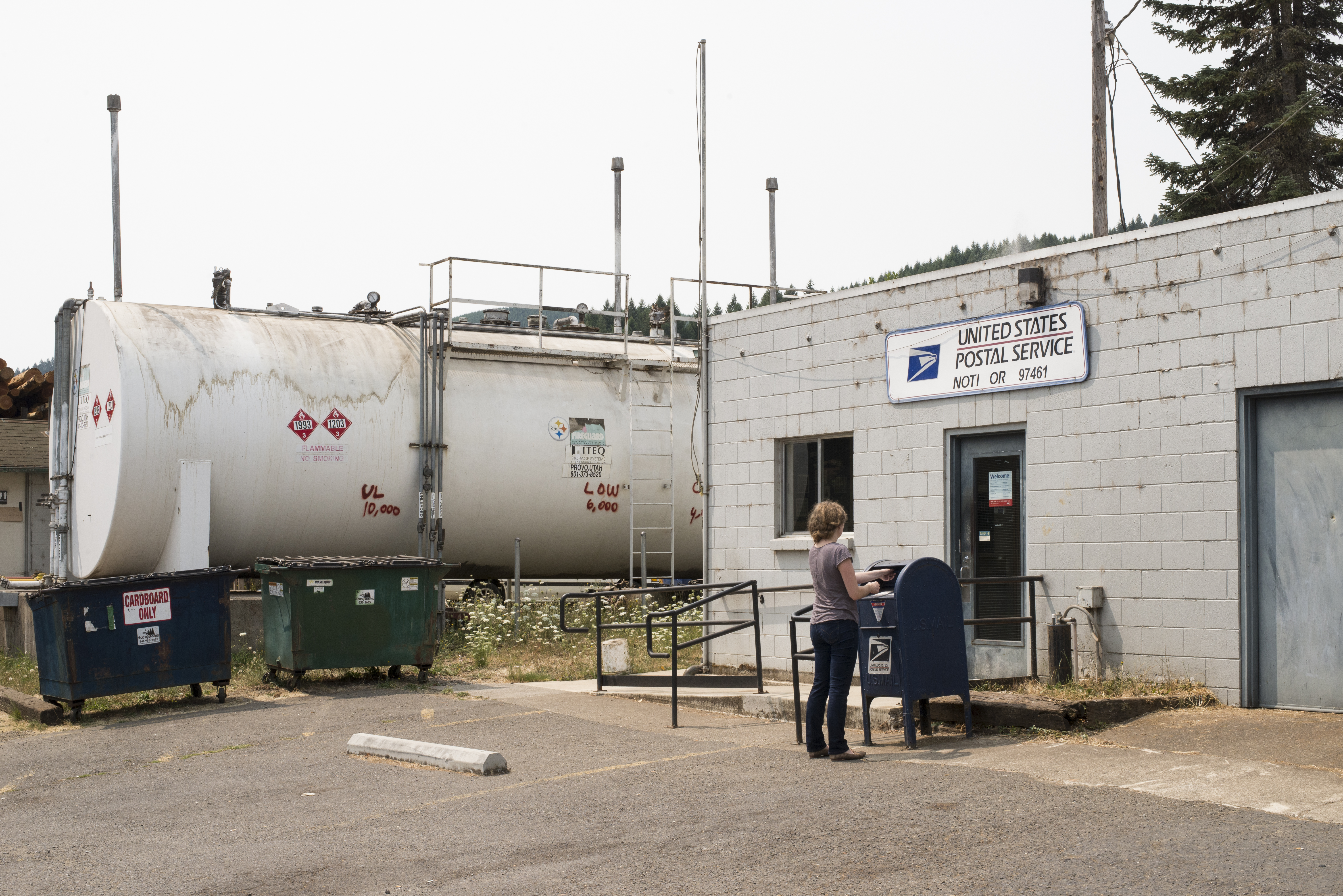 Post Office in Noti, Oregon, August 2018